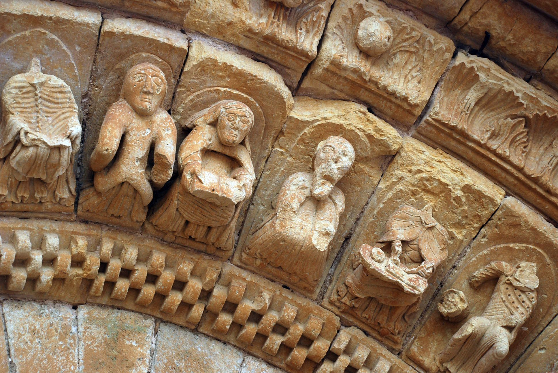 Detail of archivolt on the porche of the Church of San Pelayo in Arenillas de San Pelayo (Palencia, Castile and León). The porche is dramatically flared and consists of seven semicircular that inside to outside look successively archivolts: chequered jaqués, dowels decorated with figurines, thin and thick baquetón, another chequered jaqués, again baquetón thin and thick and outside another of thick baquetón. Apean in whole imposta that forms the cimacios the underlying capitals.